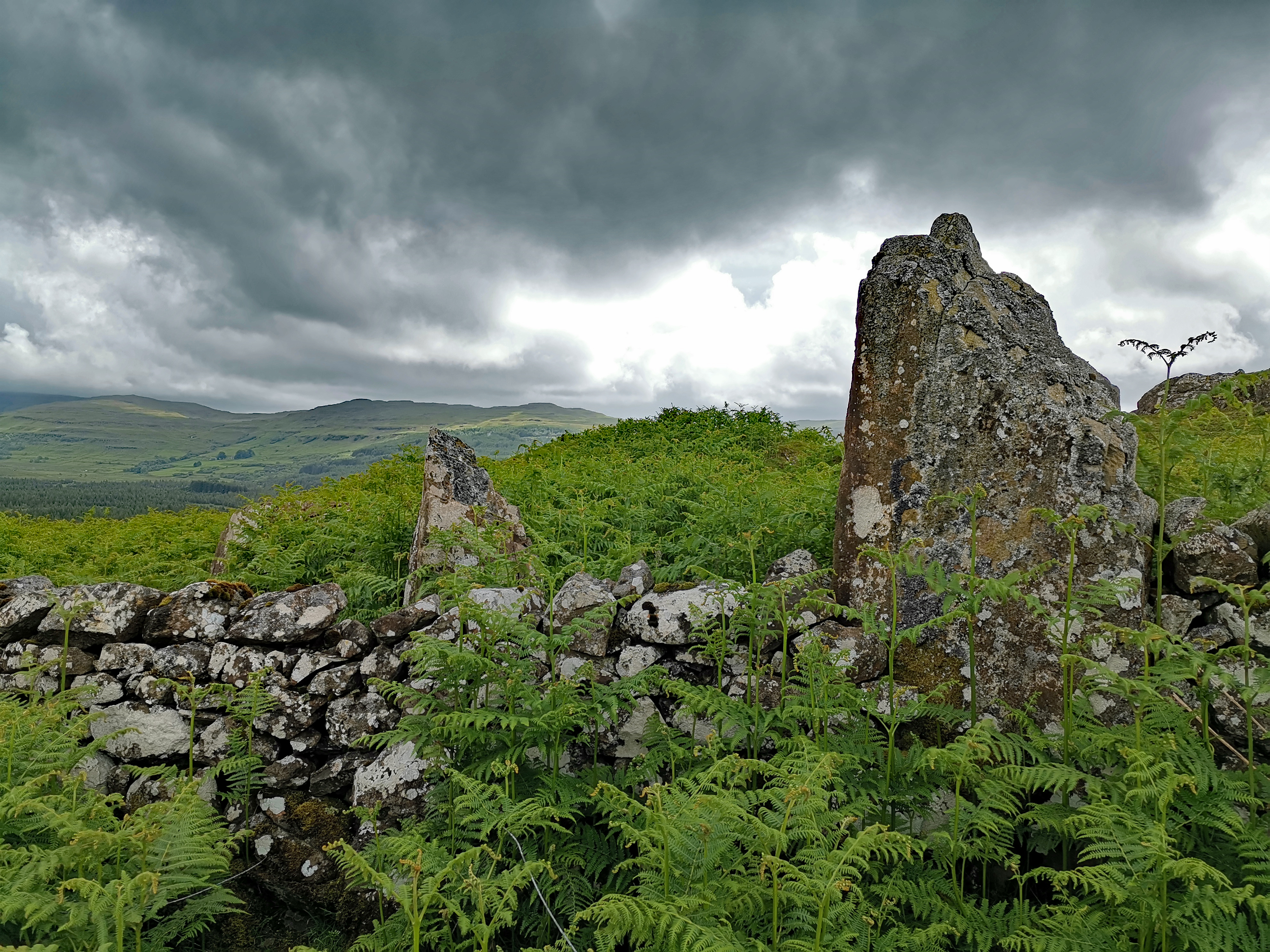 Dervaig (Mull, Inner Hebrides, Scotland, UK)